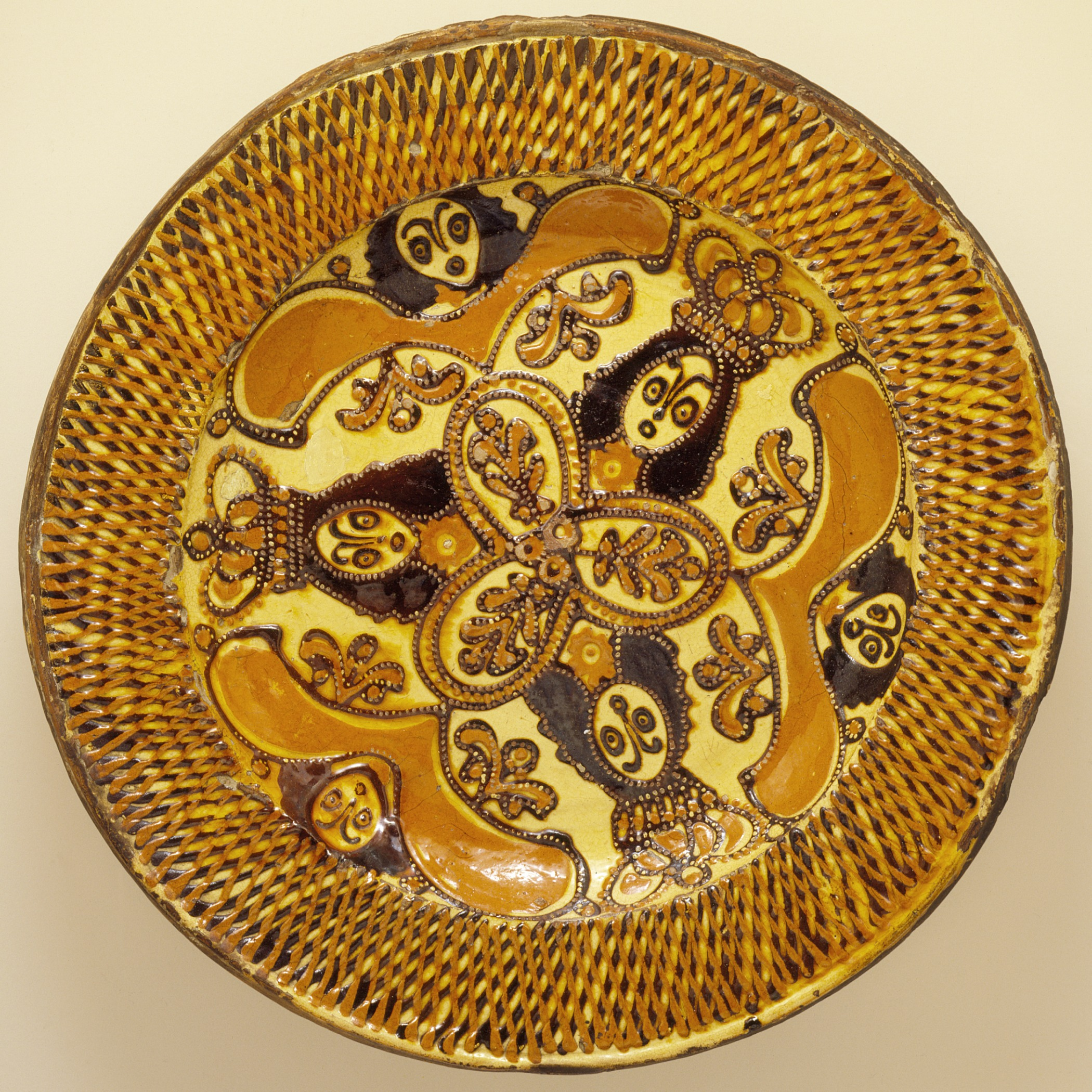 England, circa 1685 Furnishings; Serviceware Lead-glazed earthenware with slip decoration Purchased with funds provided by the George Sidney Trust and Decorative Arts Council Fund (M.86.151) Decorative Arts and Design Currently on public view: Hammer Building, floor 3